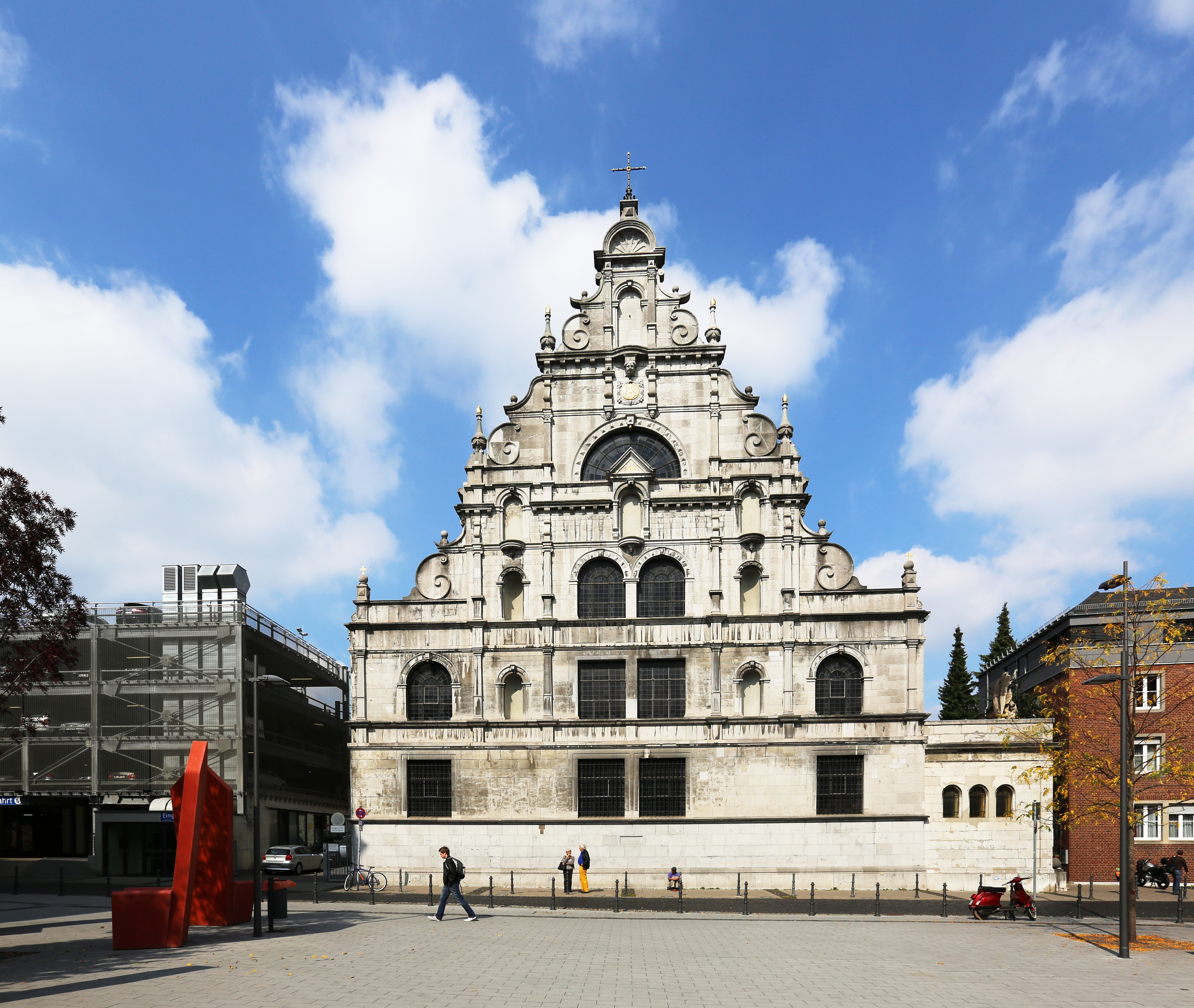 The greek-orthodox church St. Michael and St. Dimitrios, is a former Jesuit church in the Jesuit street Aachen, Germany.